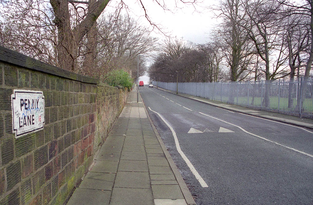 A view down Penny lane